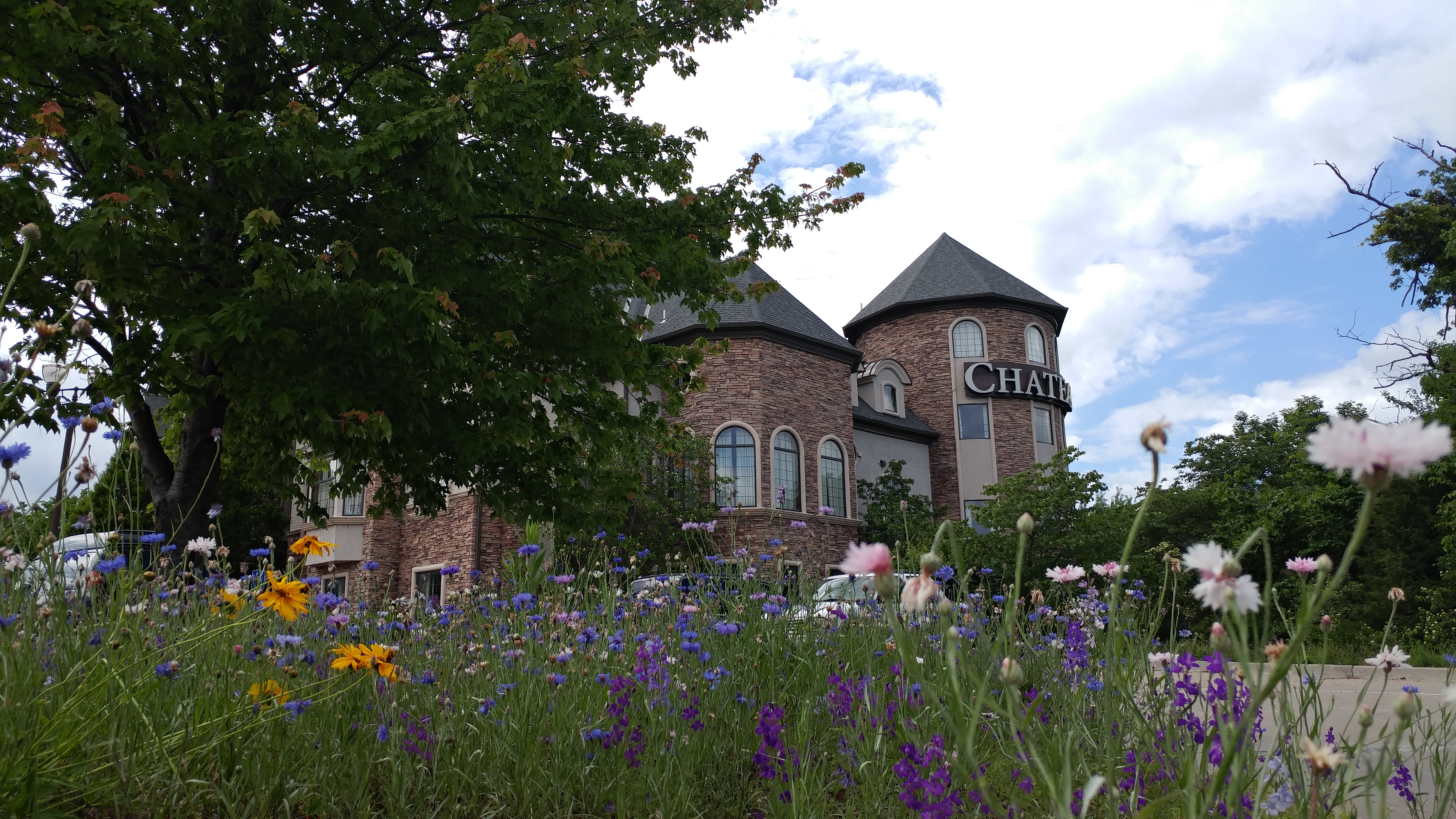 Picture of wildflowers growing on east side of Chateau Avalon